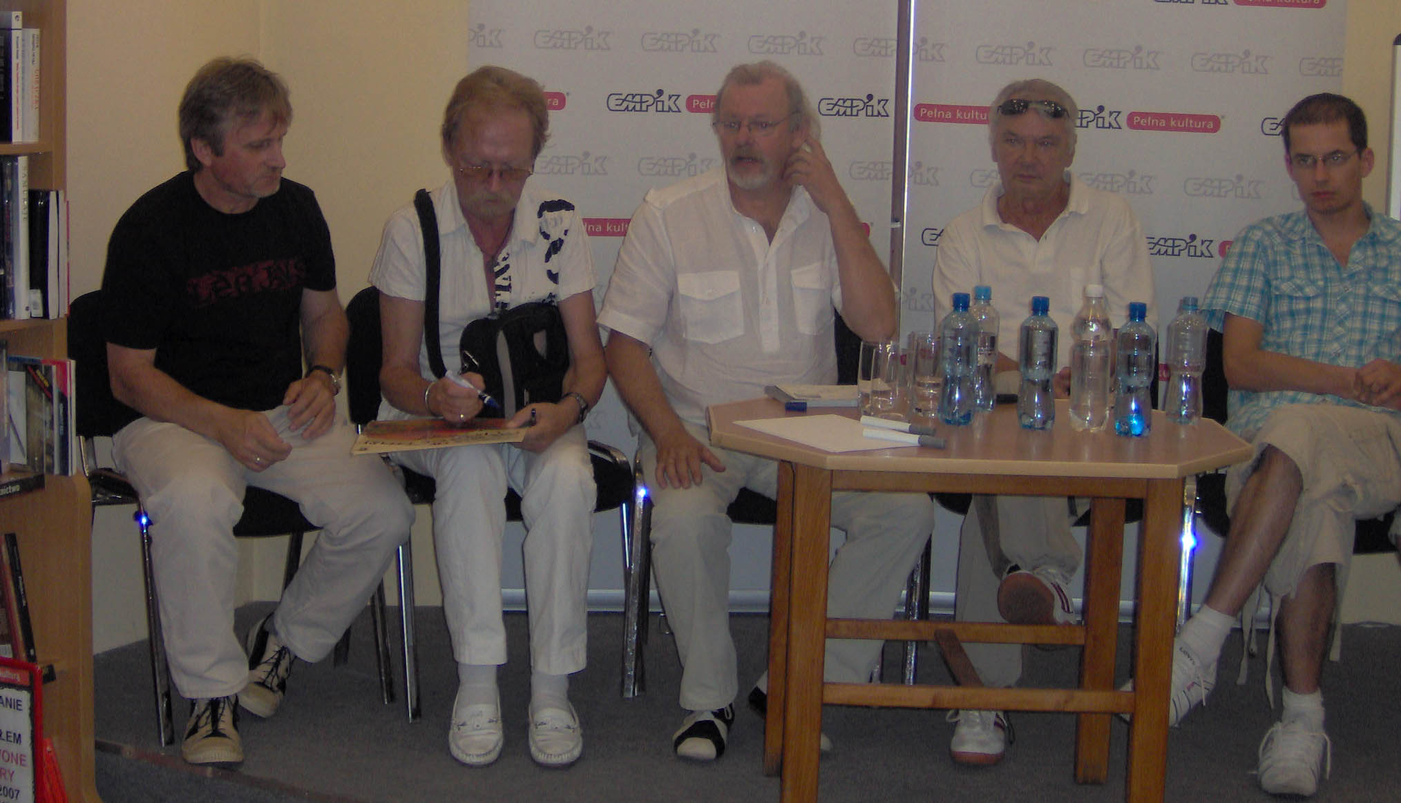 Czerwone Gitary - polish "big beat" group